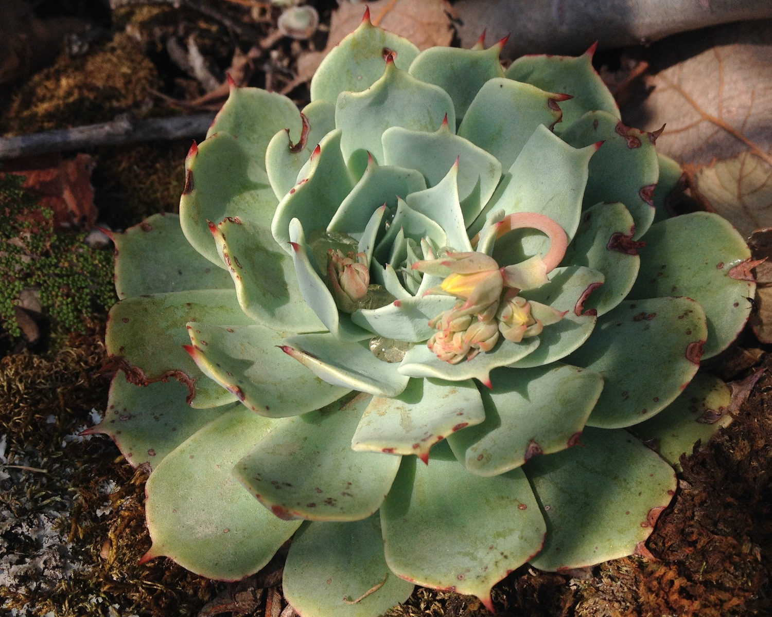 Echeveria secunda is a succulent plant of the stonecrop family Crassulaceae, native of Mexico.